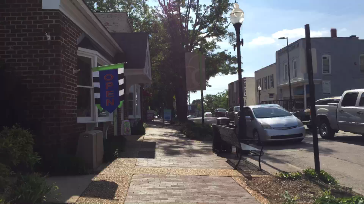 Downtown Cary, on Chatham Street